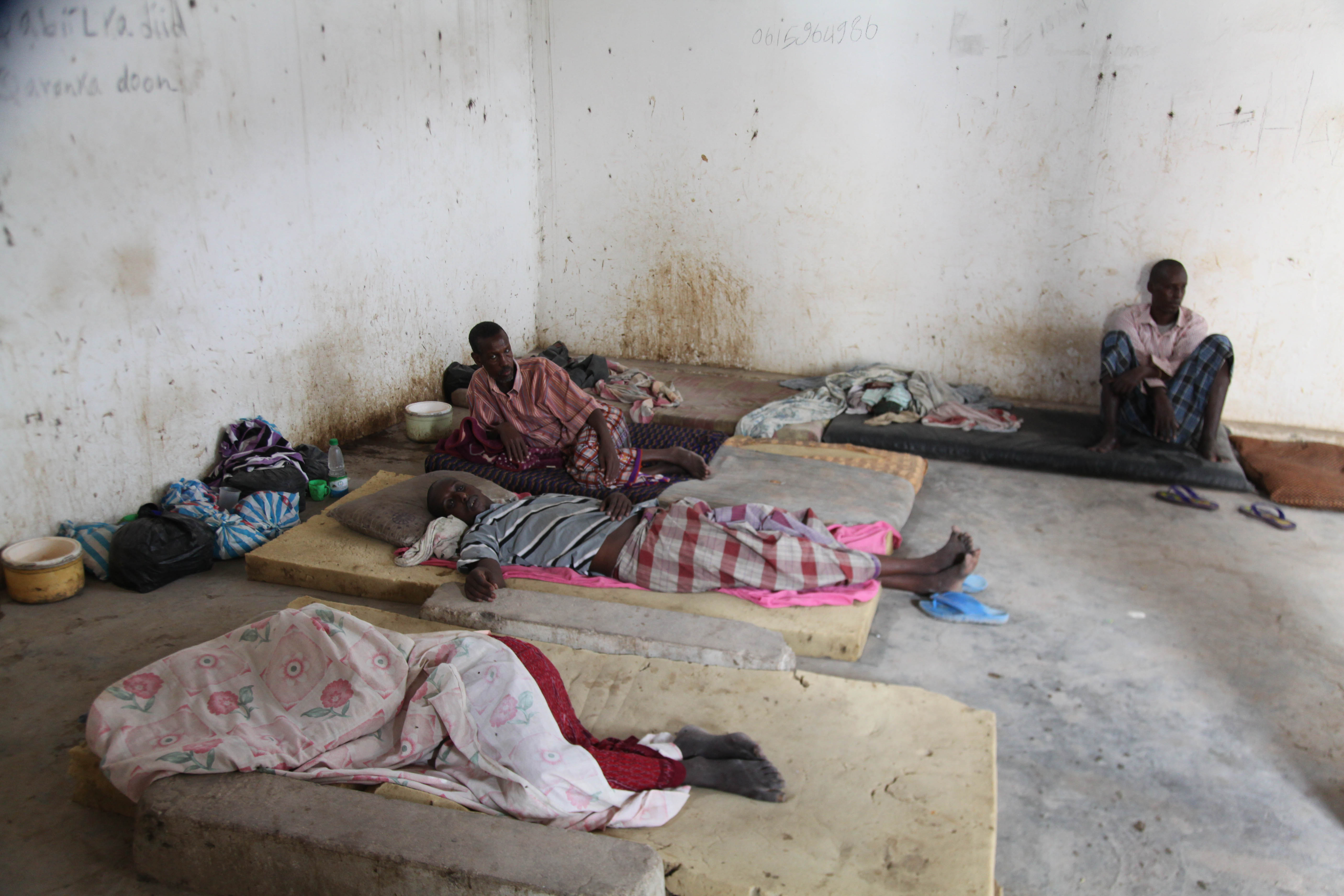 Mentally disabled patients rest on their beds in Habeb Mental Hospital in Somalia's capital, Mogadishu, on 24 Decenber, 2013. Habeb Mental Hospital is one of just a handful of mental institutions in Somalia which cater to people in the country suffering from mental issues. AU UN IST Photo / Ilyas A. Abukar